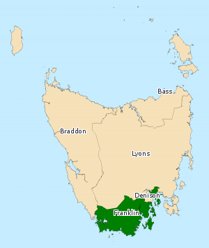 This image incorporates data that is: © Commonwealth of Australia (Australian Electoral Commission) 2009 Division of Franklin 2010